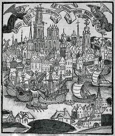 View of the harbor of Antwerp with the Church of Our Lady (now Cathedral) during construction. Woodcut from the book Hymns in honor of Emperor Maximilian and his grandson Charles the Fifth, published in 1515 in Antwerp, in honor of Maximilian I and his grand-son Charles, by the printer of January Gheet, including musical compositions and Benedictus Opitiis and texts Opitiis Peter and Rutger Kynen. Copy of the Library of the University of Louvain.